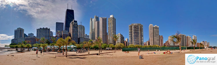 Panoramic 360° Image of Oak Street Beach in Chicago